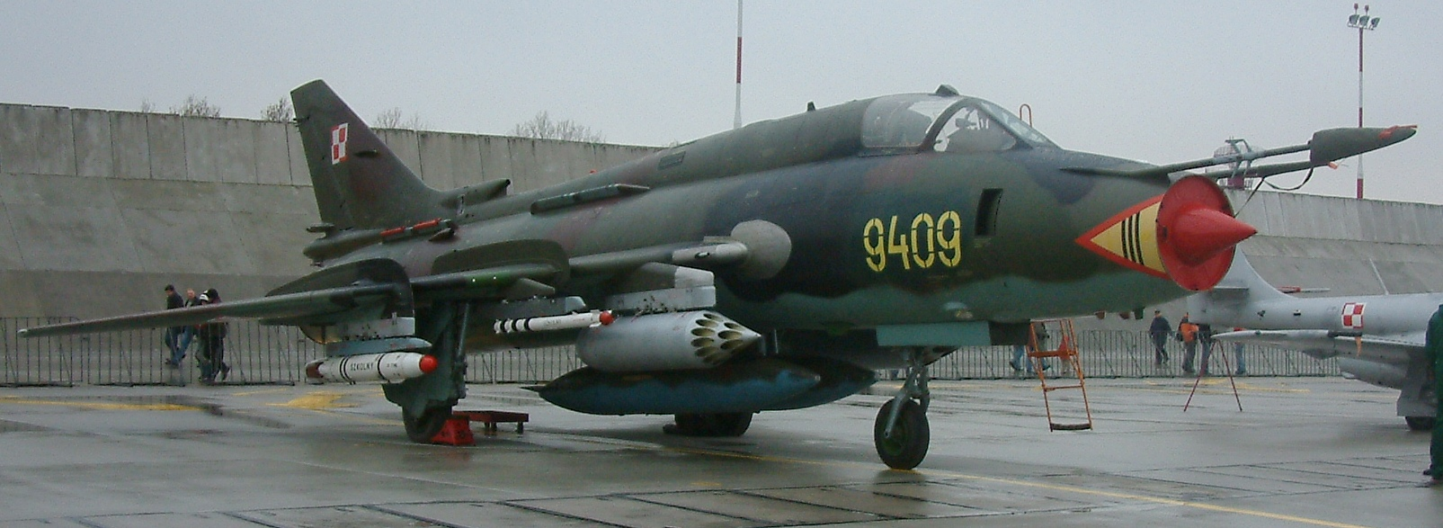 Su-22M4K (Su-17M4K) #9409 of Polish Air Force with markings of 7th Tactical Sqd., 31st. Air Base Poznań-Krzesiny